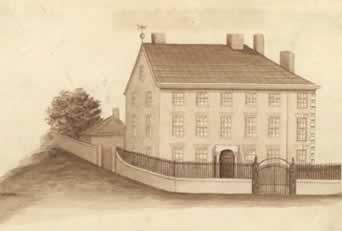 A drawing of the Warrington Academy, by James Kendrick, in 1757.